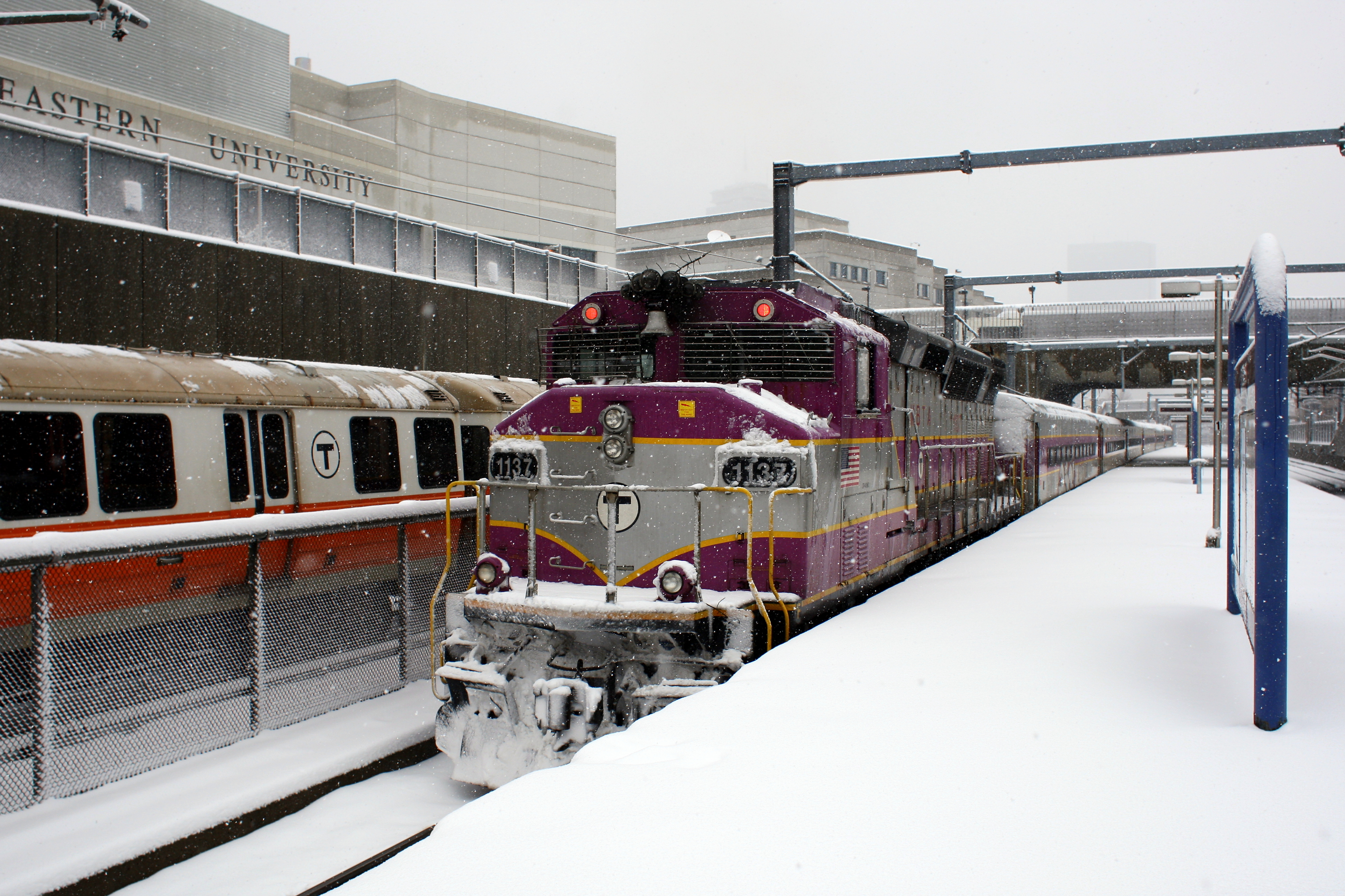 GP40MC 1137 pushes away from Ruggles MBTA Station while and Orange Line set accelerates toward Mass. Ave. Station